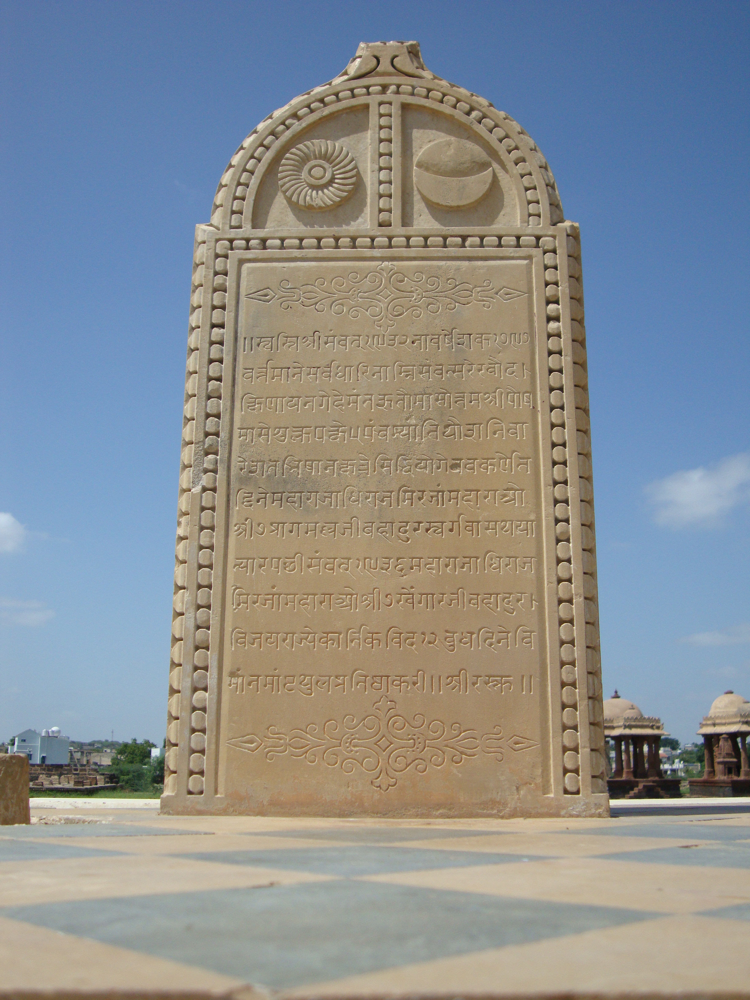 Samadhi with writing about Raja Pragmalji photo2